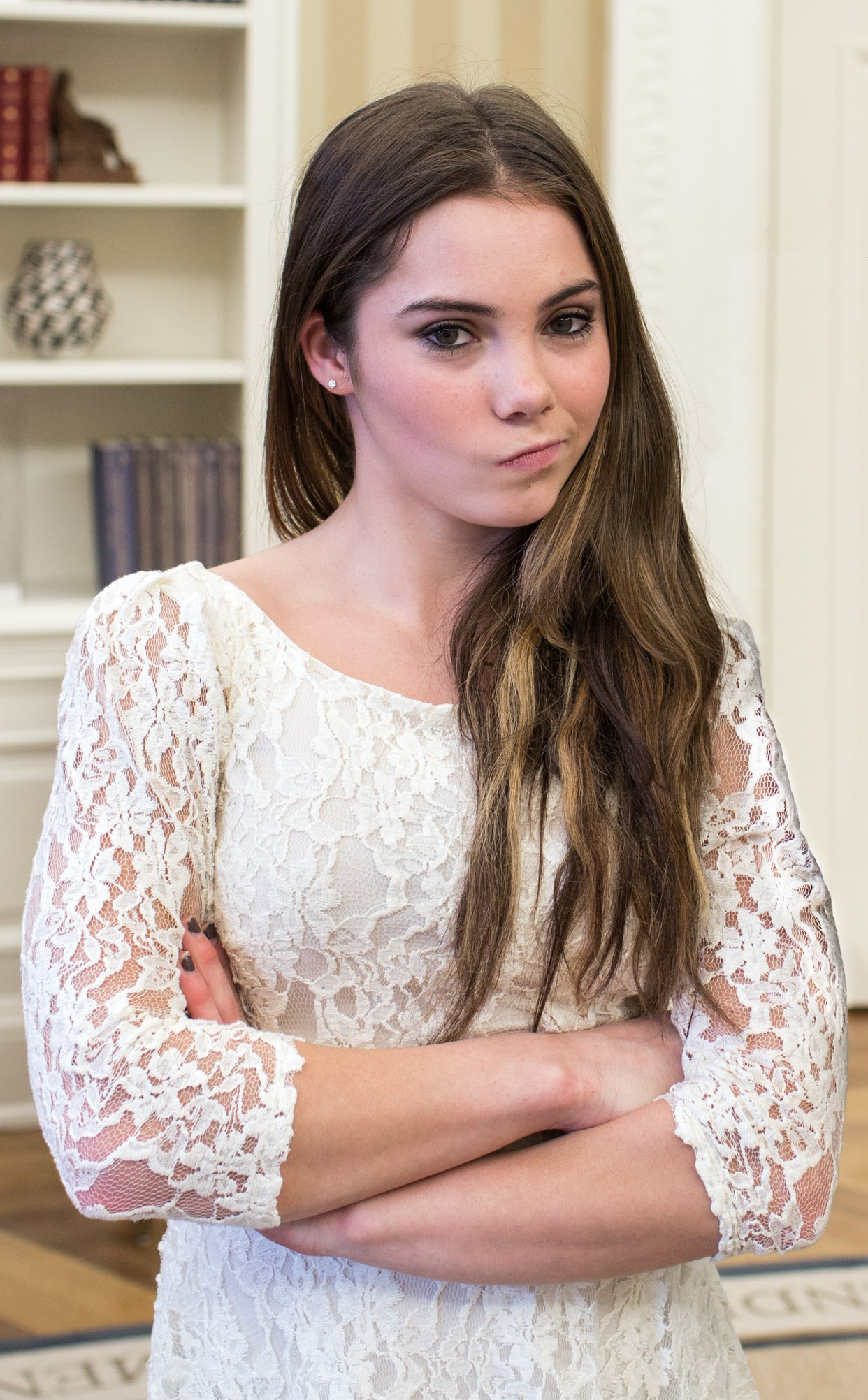 U.S. Olympic gymnast McKayla Maroney mimics her "not impressed" look at President Barack Obamas' side, greeting members of the 2012 U.S. Olympic gymnastics teams in the Oval Office, Nov. 15, 2012 (Official White House Photo by Pete Souza, cropped and little retouched version – sorry Mr. President, your partly visible arm was distracting ;-)